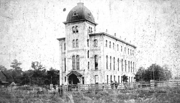 Chapel Hall of Florida Agricultural College in 1880s. Located in Lake City, FL